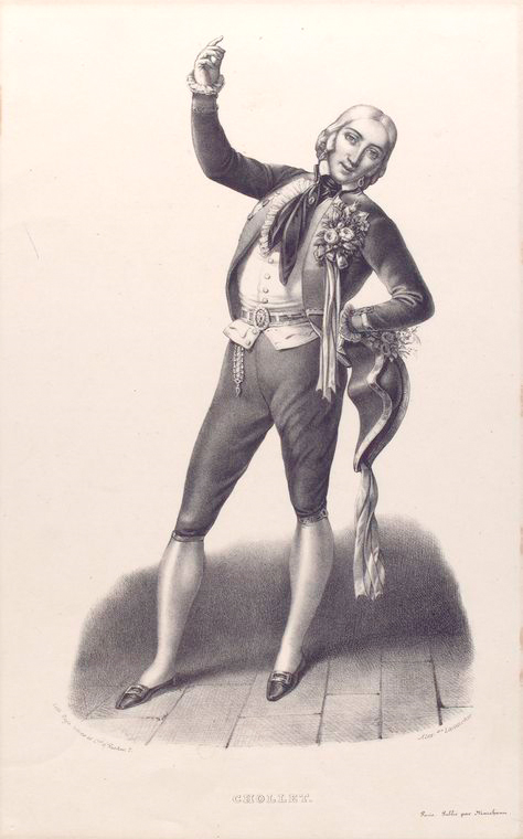 French opera singer Jean-Baptiste Chollet (1798—1892)